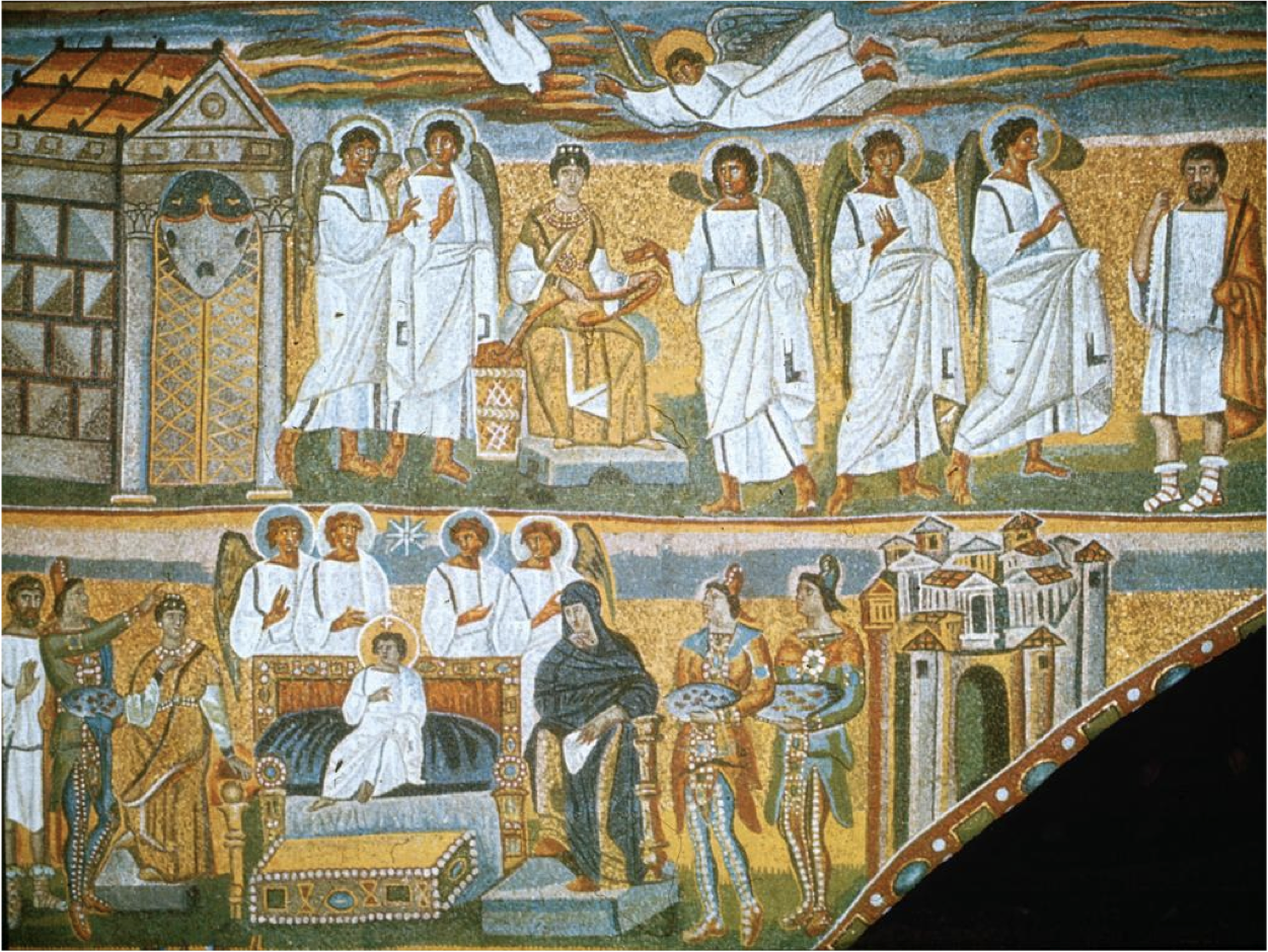 Annunciation on the triumphal arch of Santa Maria Maggiore in Rome (432-440)